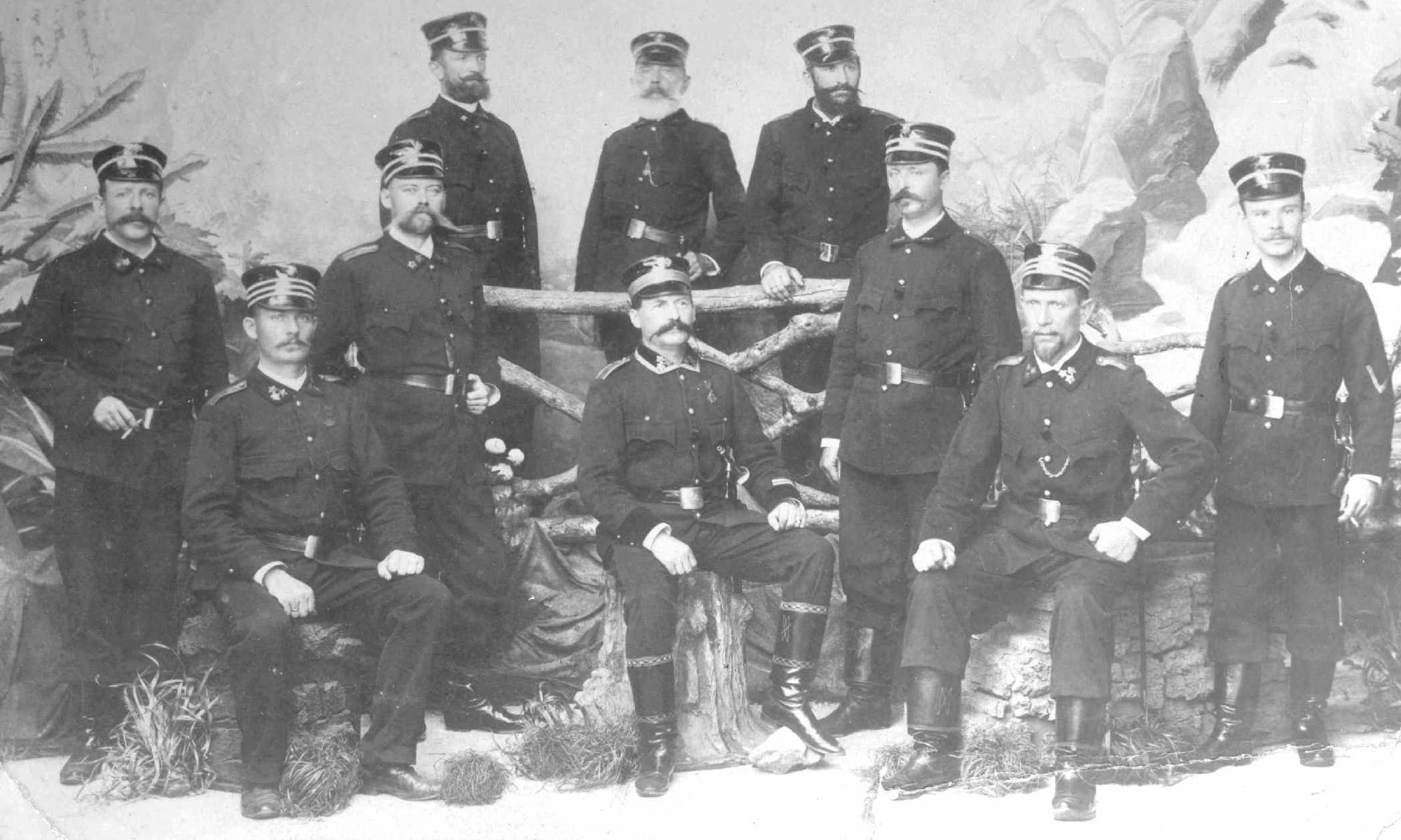 German-Brazilian Firefighters Volunteers, 1897 - Parana - Brazil.